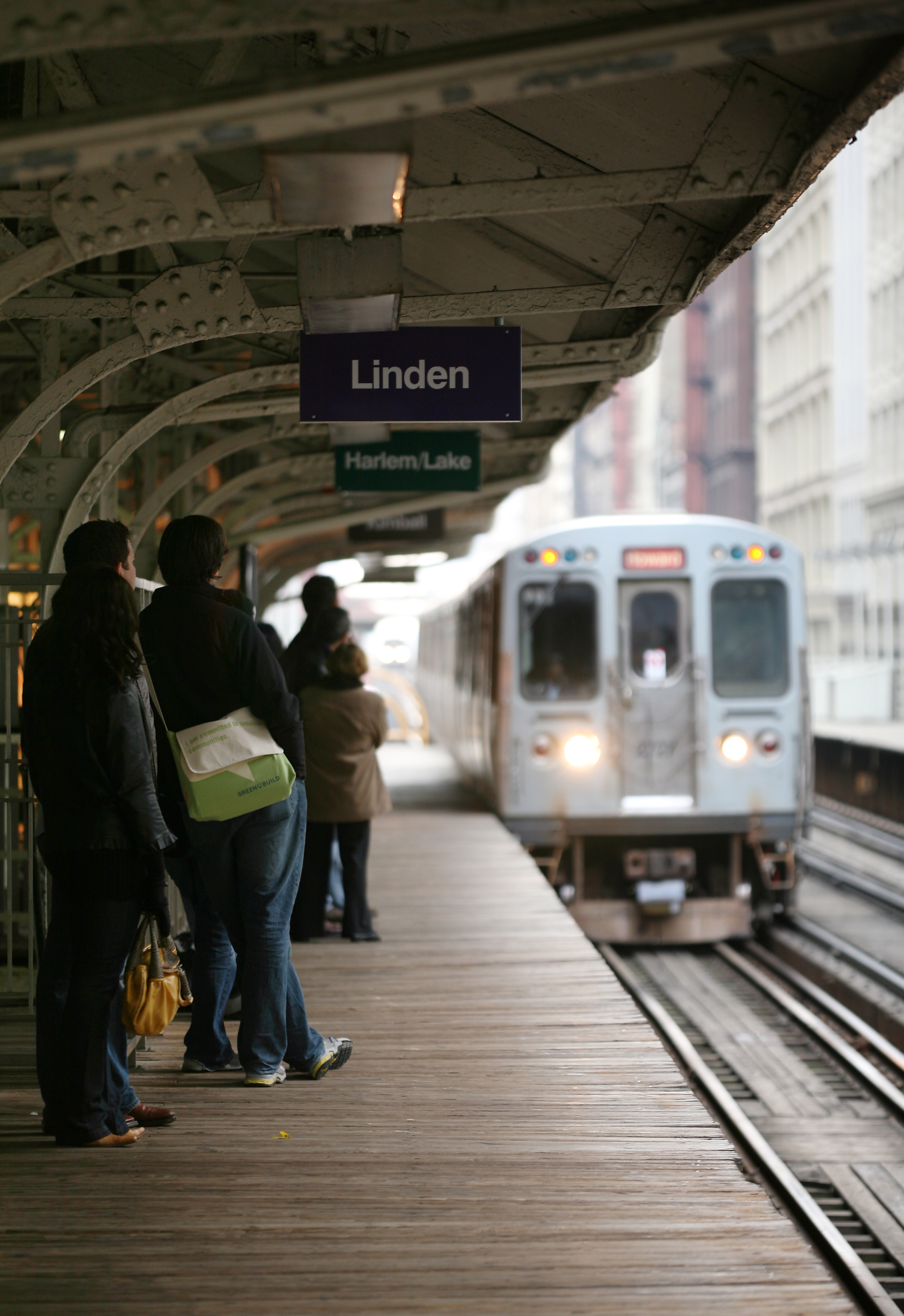 Waiting for an approaching train on the Chicago 'L'. The train in the picture is a rerouted red-line train during the downtown red line construction in 2008.